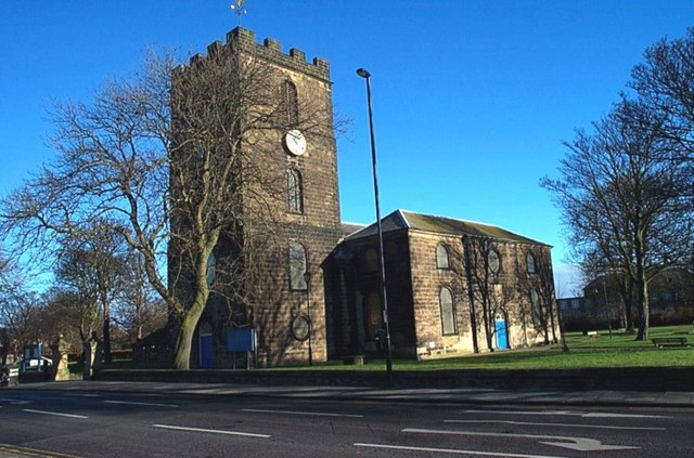 Christ Church, North Shields, Tyne and Wear (formerly Northumberland)